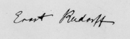 Signature of Ernst Rudorff.